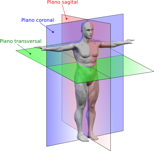 Planes of human anatomy.